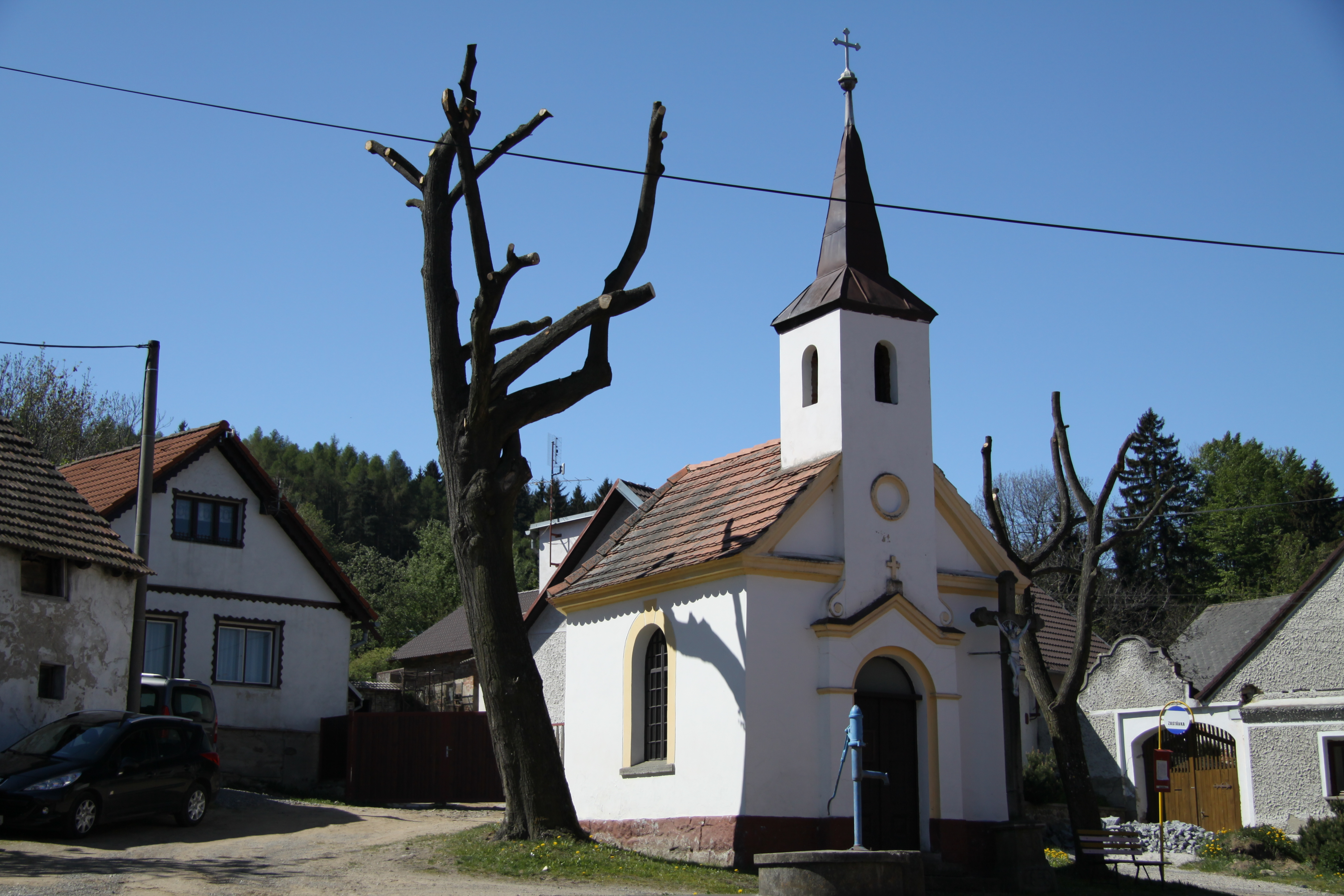 Chapel in Krušlov village in Strakonice District, Czech Republic